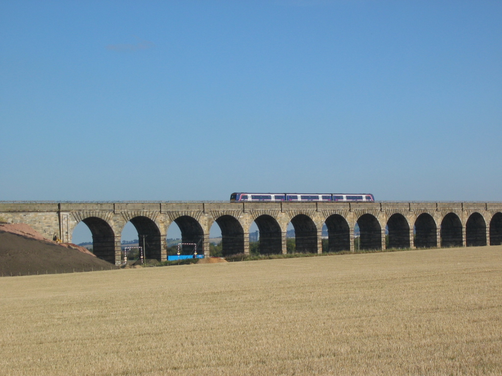 Ratho Railway Viaduct, West Lothian, Scotland